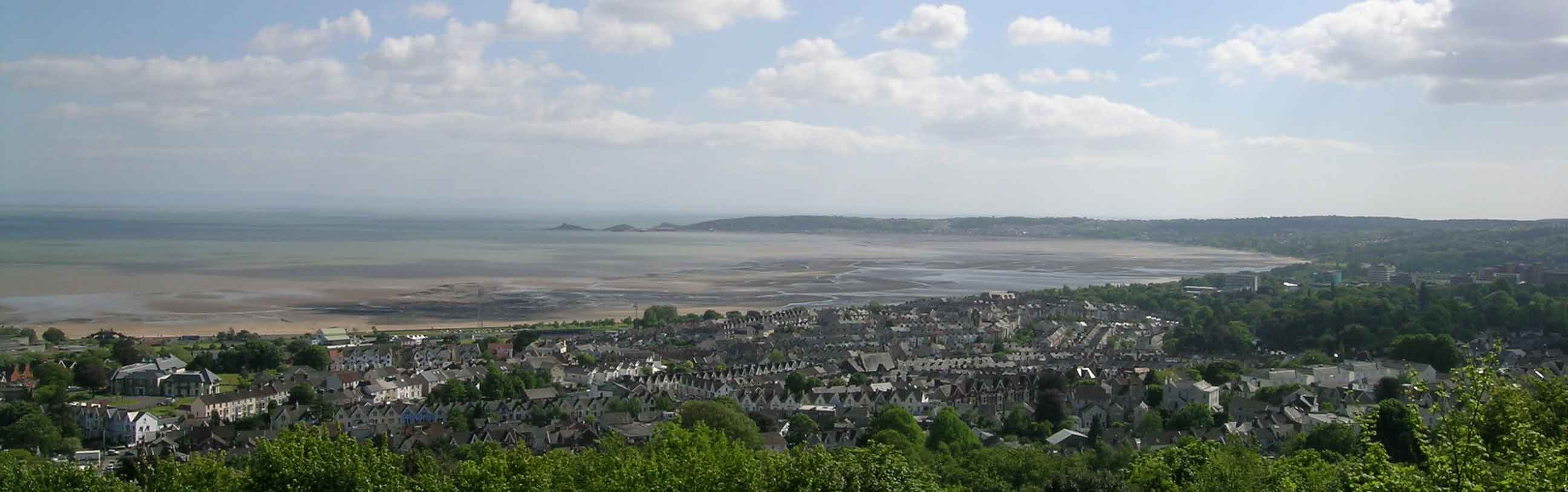 Swansea Bay as seen from Townhill